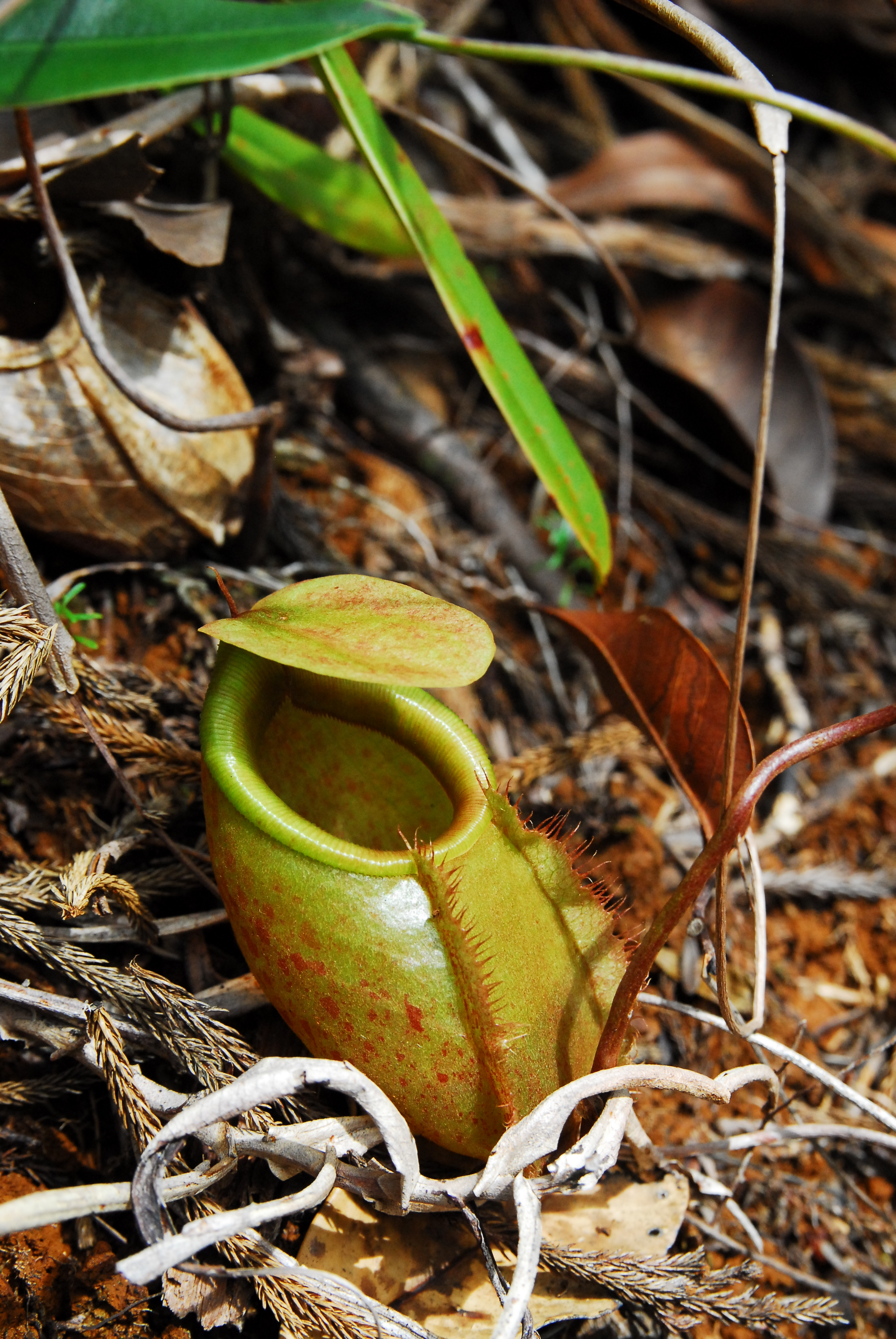 Nepenthes bellii lower pitcher from Dinagat Island, Philippines